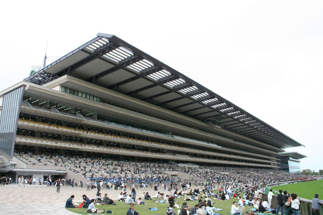 Tokyo Racecourse